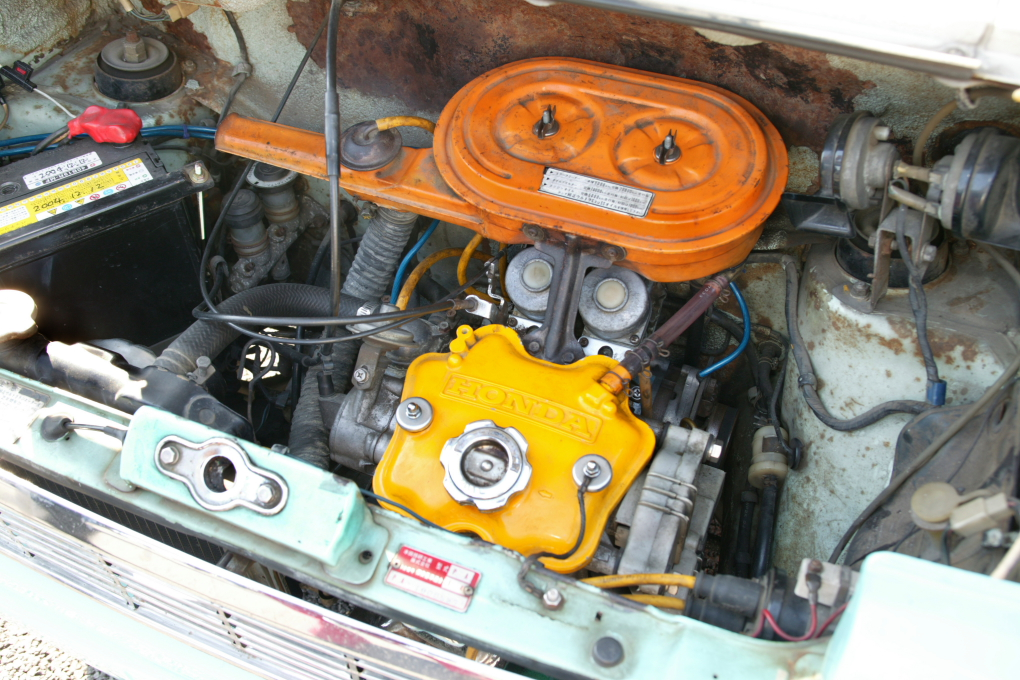 Honda EA engine of Life pick-up.